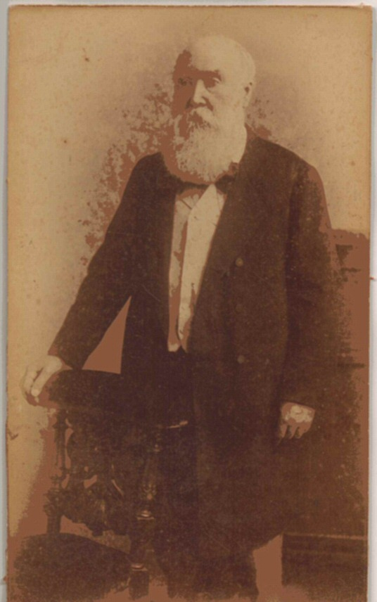 Portrait Photograph of Dr John Ivor Murray, explorer, physician, and founder of hospitals in China, in old age, standing with a chair in a bare room, fully bearded, with long jacket and pale waistcoat.